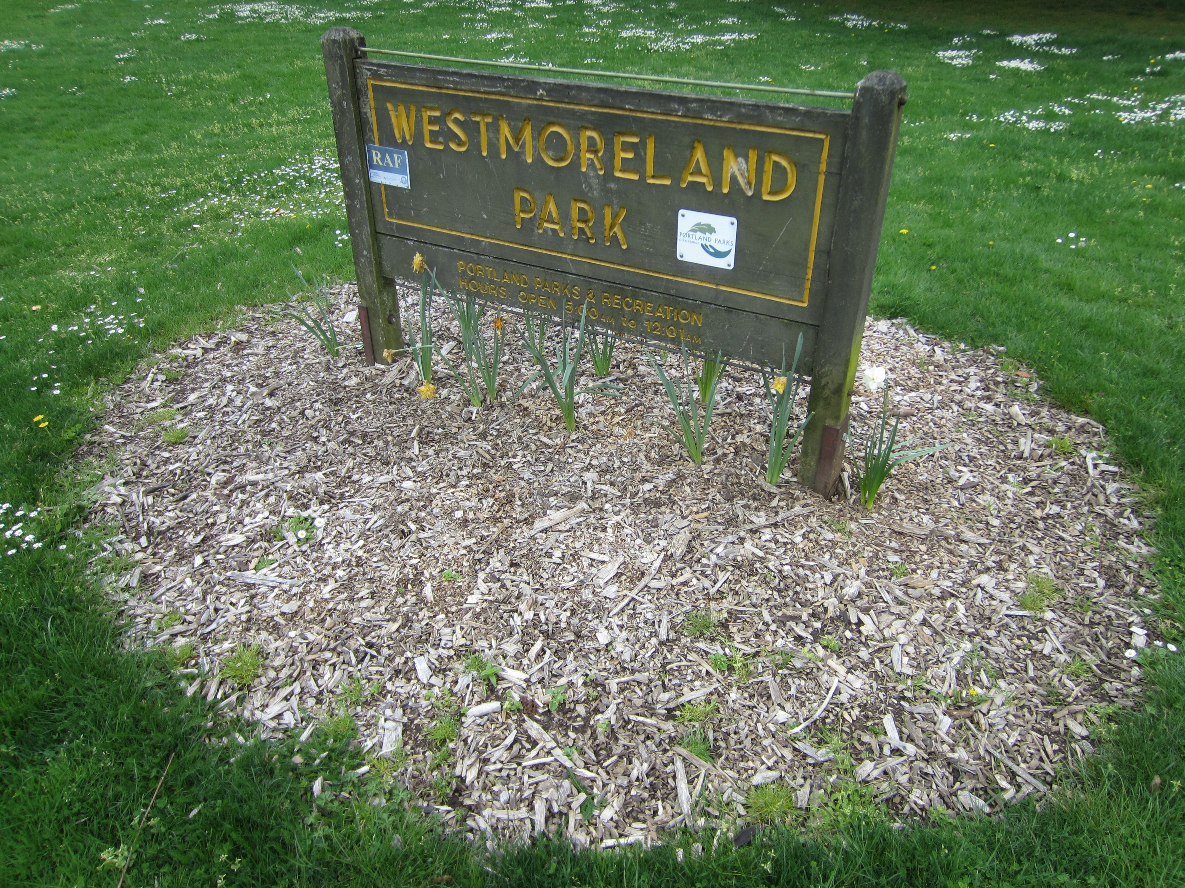 Sign for Westmoreland Park in southeast Portland, Oregon in 2012